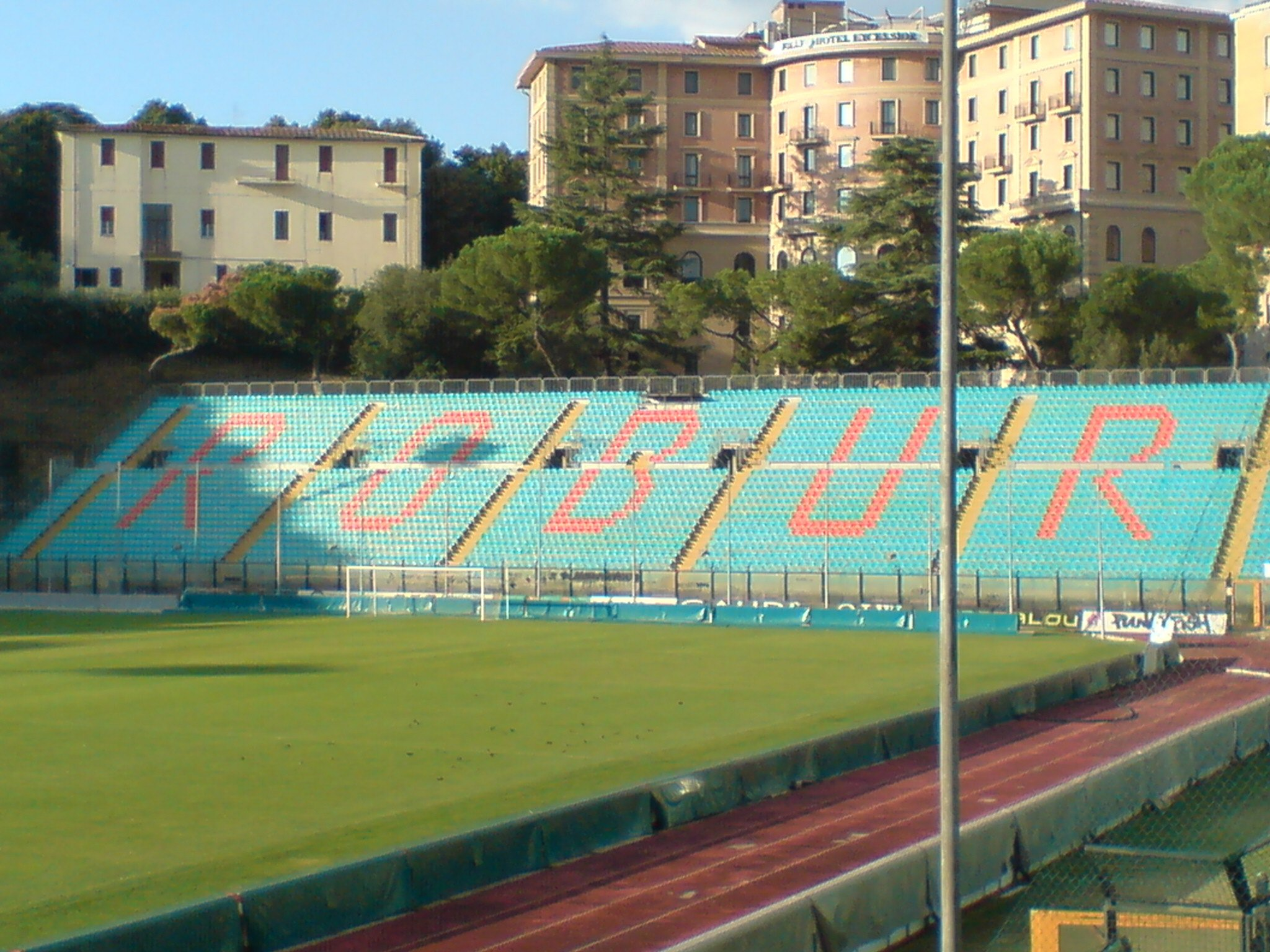 The stand of the suporters of AC Siena.